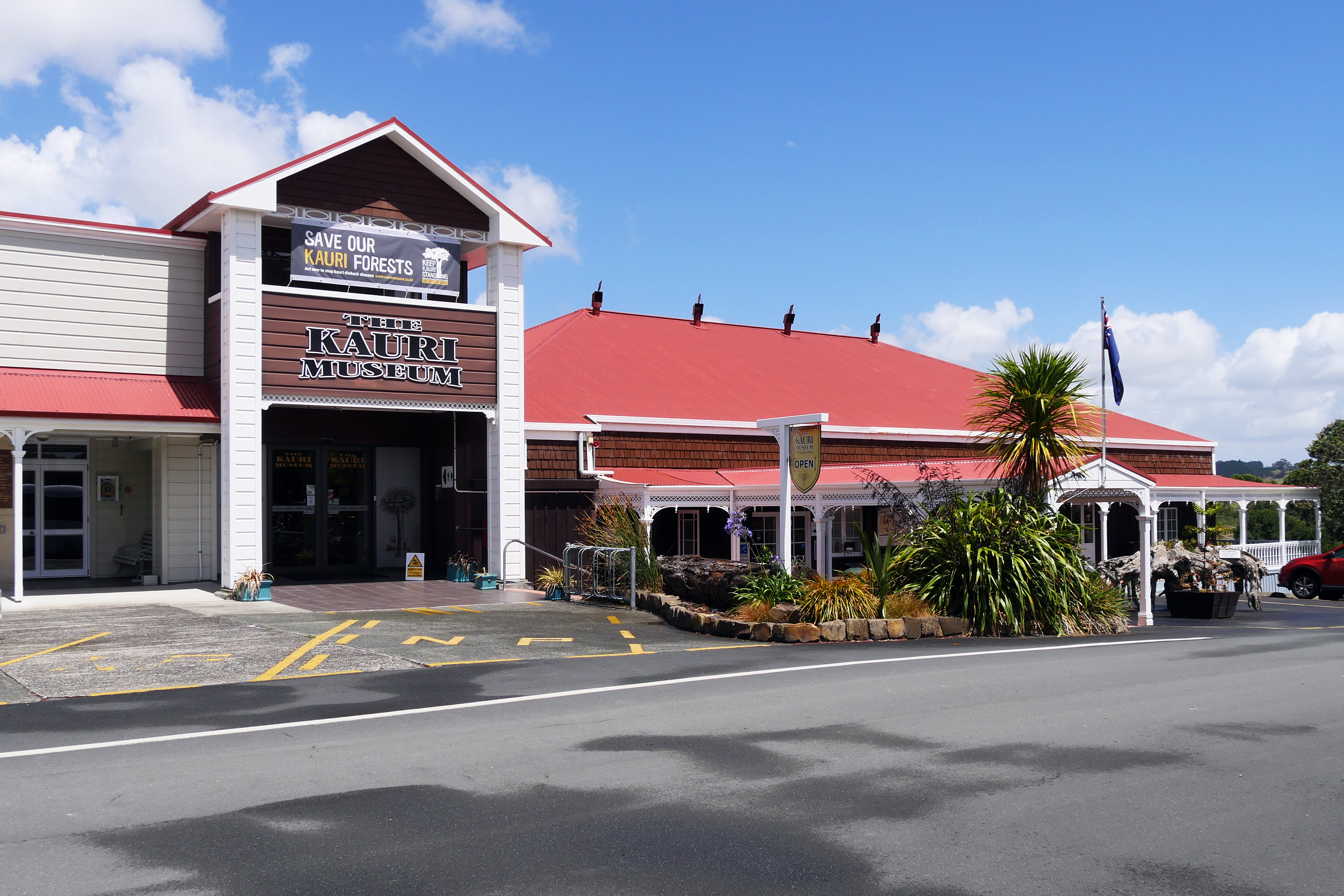 The Kauri Museum (front side) Matakohe, Kaipara District, Northland Region, North Island, New Zealand